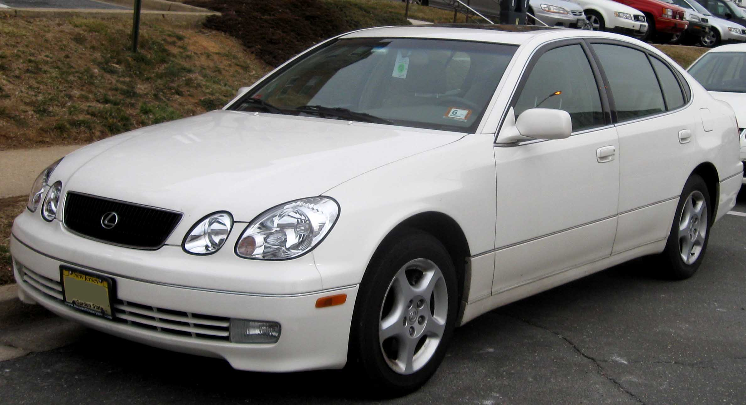 1998-2000 Lexus GS300 photographed in College Park, Maryland, USA.